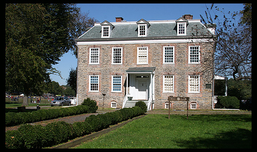 Photo by Robert Swanson of Van Cortlandt Mansion. Image made 10/14/06